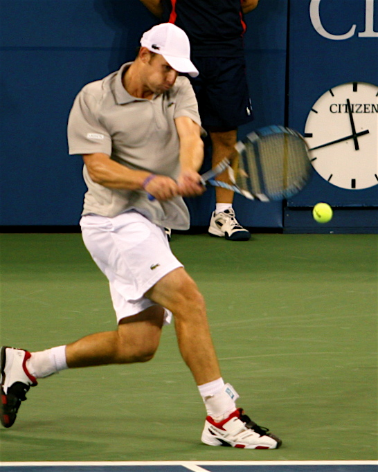 At the 2006 US Open